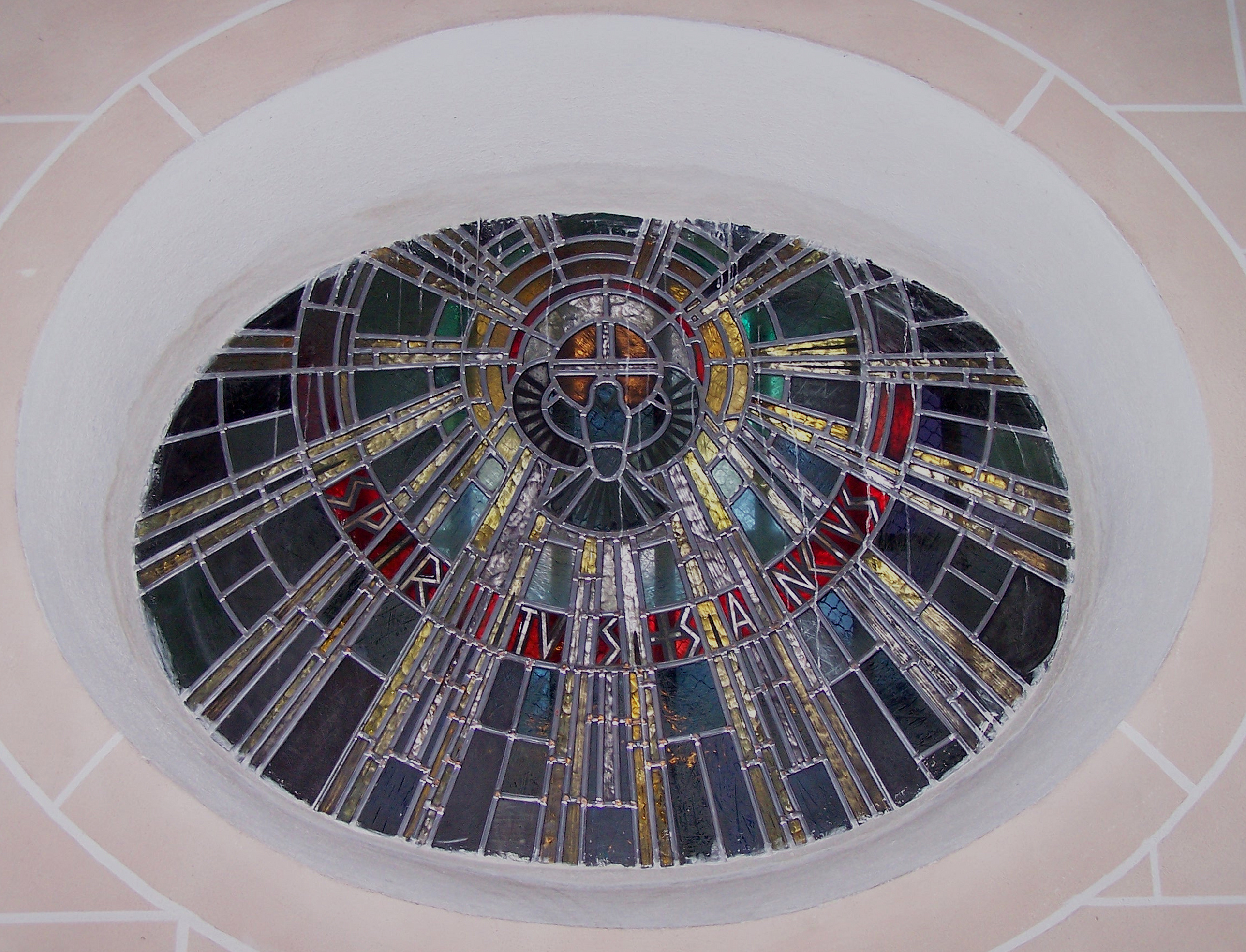 Bulls eye window in place of the west portal side of the Saint Justinus' church in Frankfurt am Main-Höchst, situation of 2009